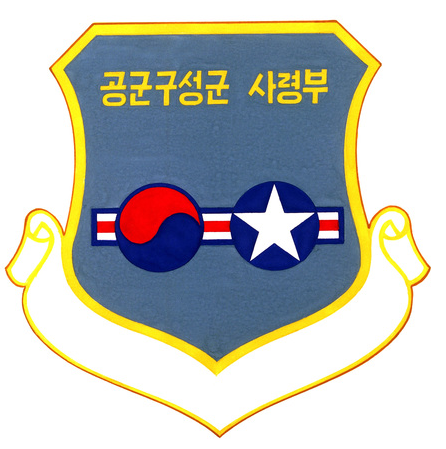 Air Component Command emblem. Approved March 1984.